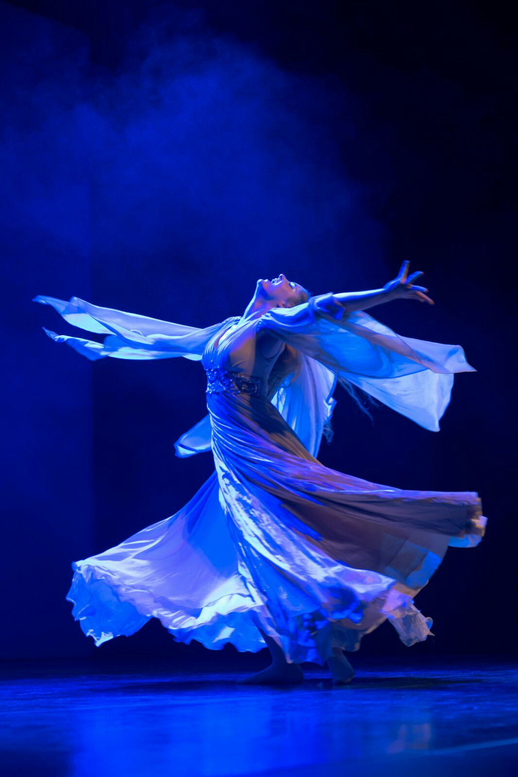 My photo of a whirling dance artist performing a whirling dance.